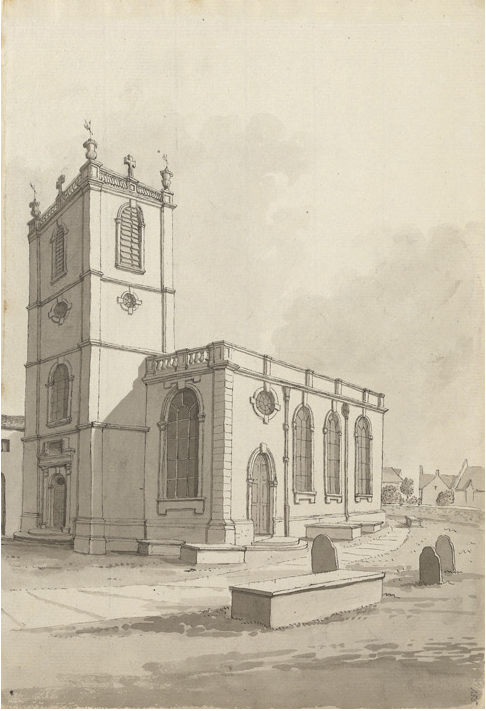 St.Peter at Arches, Lincoln c1784